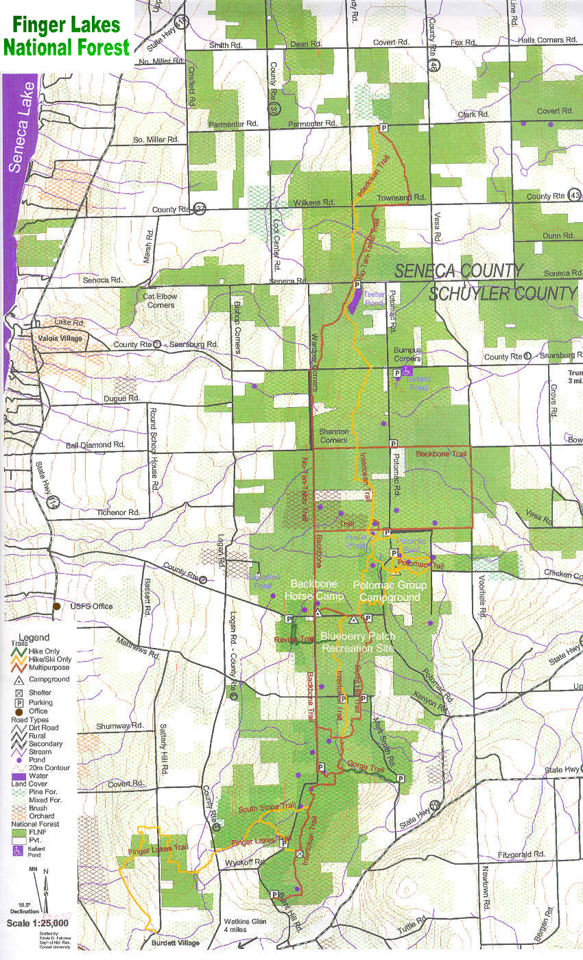 A map of the Finger Lakes National Forest in the Finger Lakes region of New York state. References USDA Forest Service